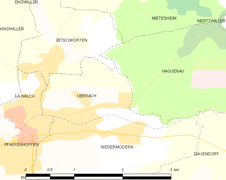 Map of French municipality